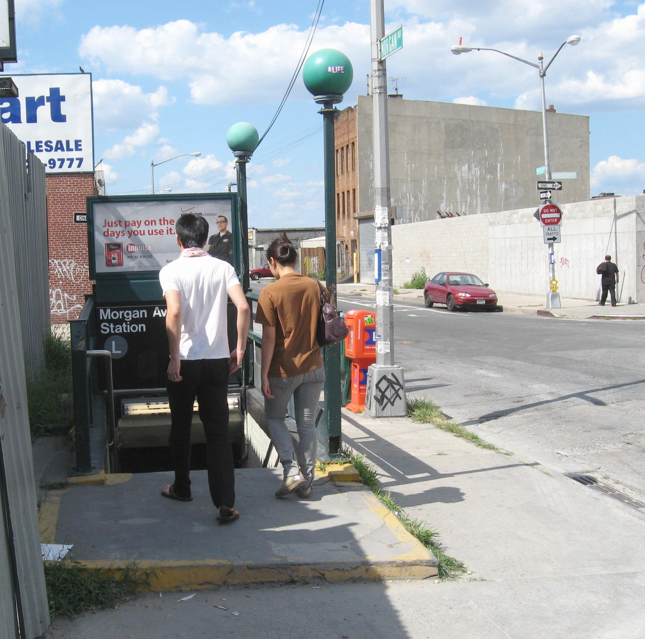 Looking nort at Morgan Avenue (BMT Canarsie Line) street stair on a sunny midday